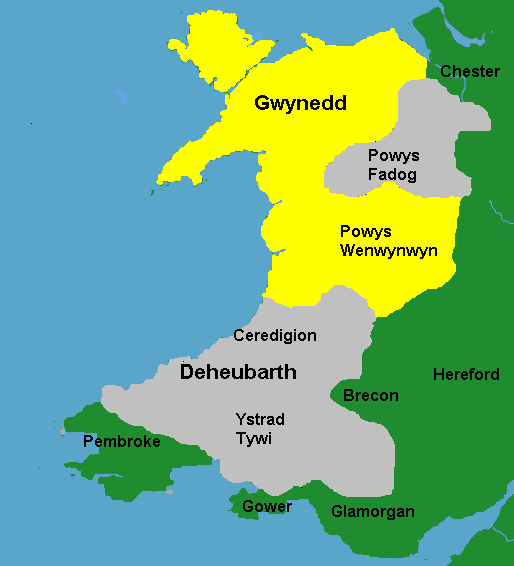 Wales about 1217: showing lands held by Llywelyn the Great and his client princes Rhion Pritchard : own work 22/07/2006 Created using Microsoft Paint